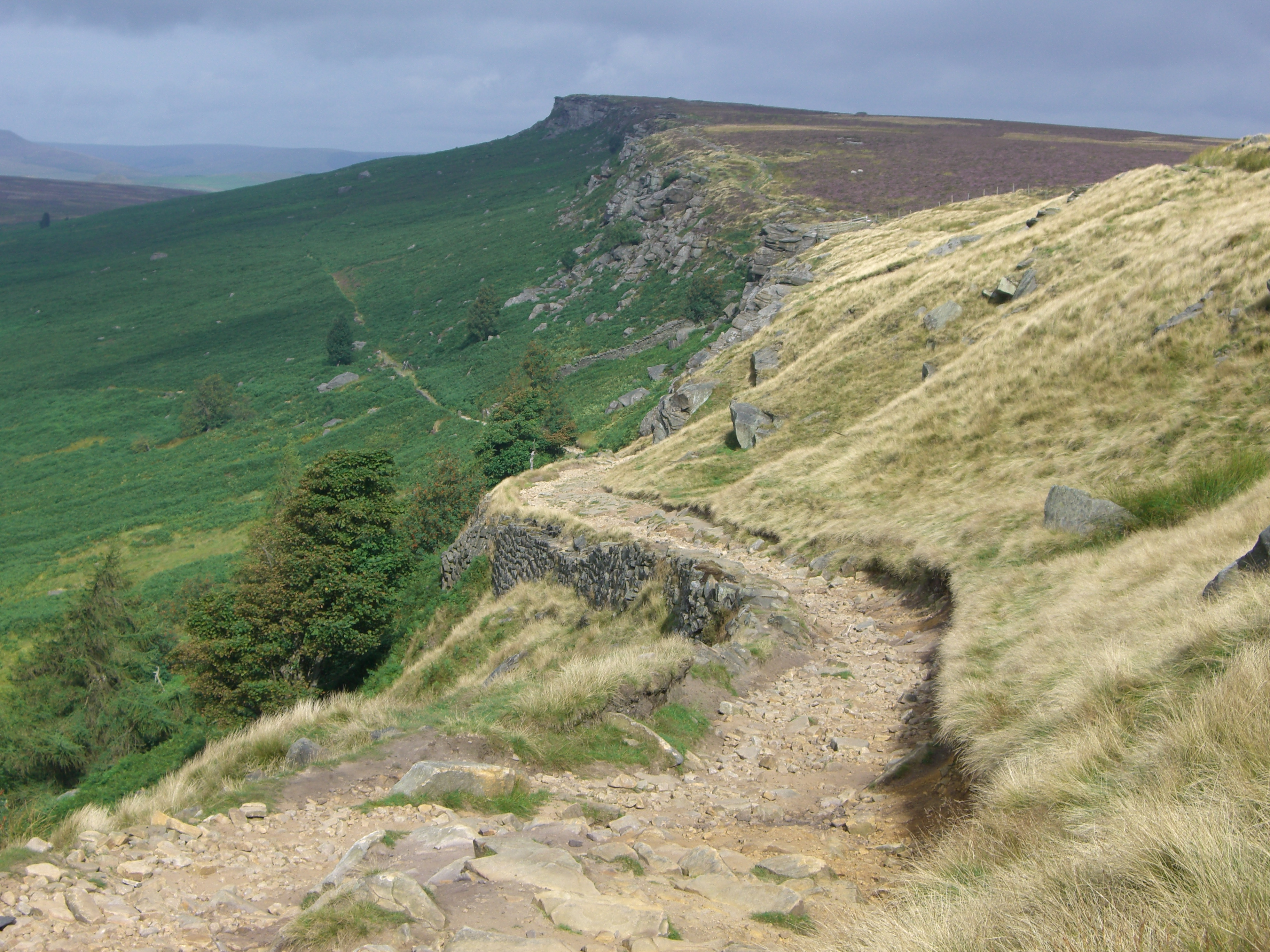 The ancient medieval road, Long Causeway, descends Stanage Edge on the Yorkshire / Derbyshire border in England.